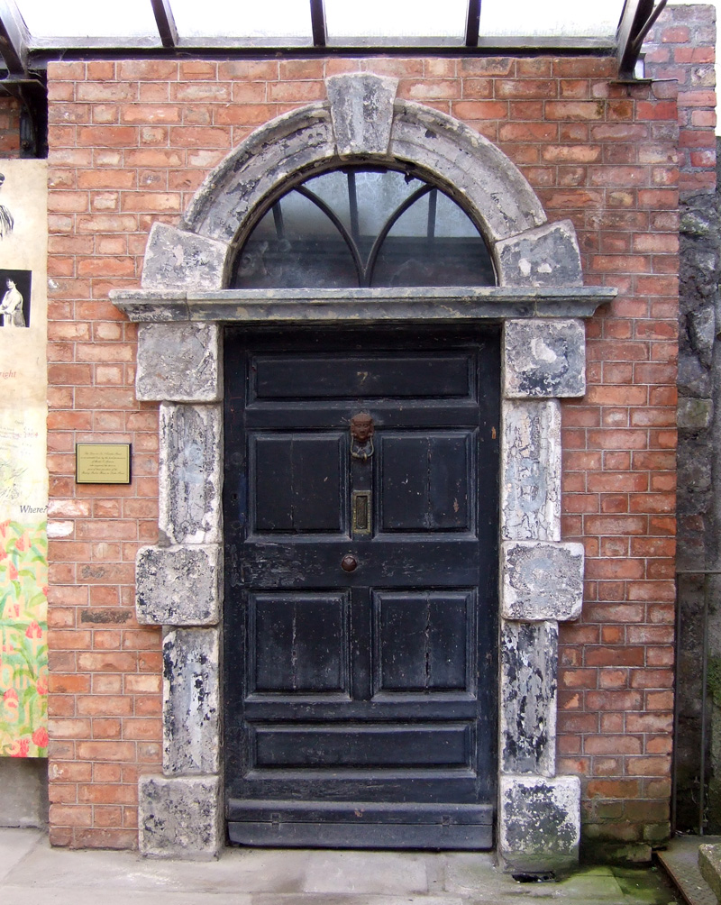 The original front-door from No. 7 Eccles Street (Leopold Bloom’s home in Ulysses) on display in the yard at the back of the James Joyce Centre[1].